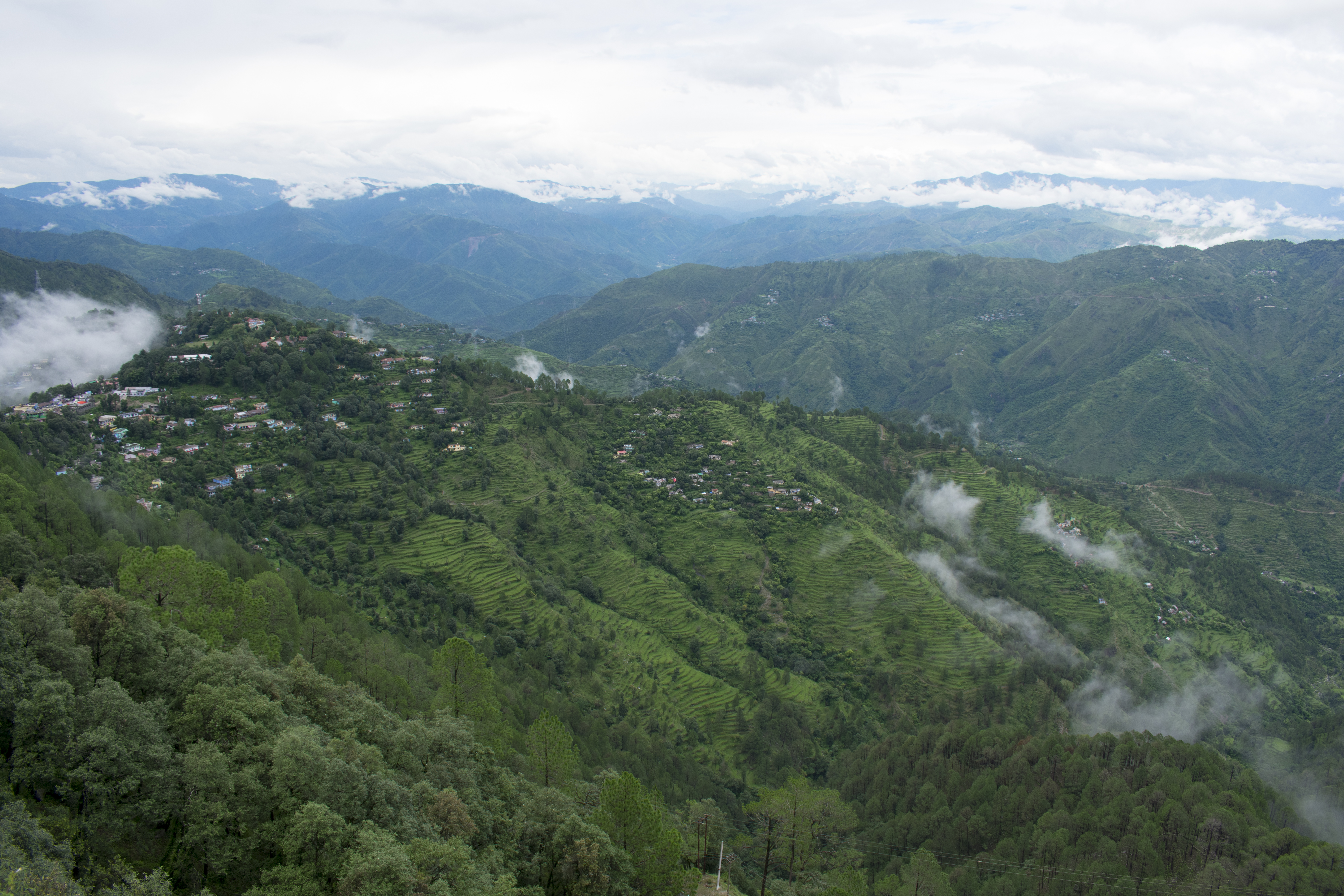 Landscape view of Lansdowne village during monsoon season in July 2018, Uttarakhand, India